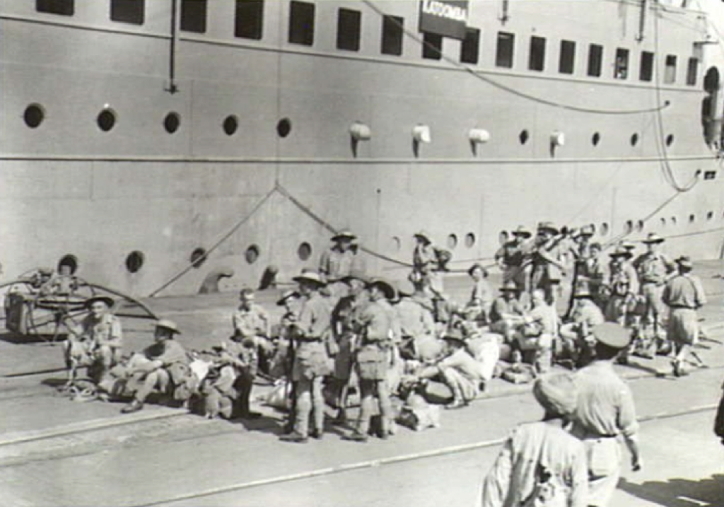 Bombay, India. 1942-03-25. Troops of the A.I.F. En route from the Middle East to Australia, waiting to embark on the transport Katoomba at Bombay to continue the journey home.